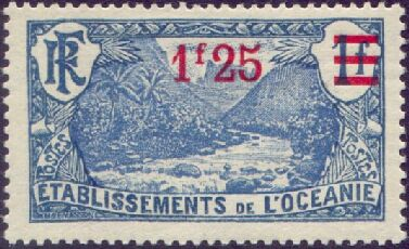 A 1924 stamp of the French Oceanic Settlements.